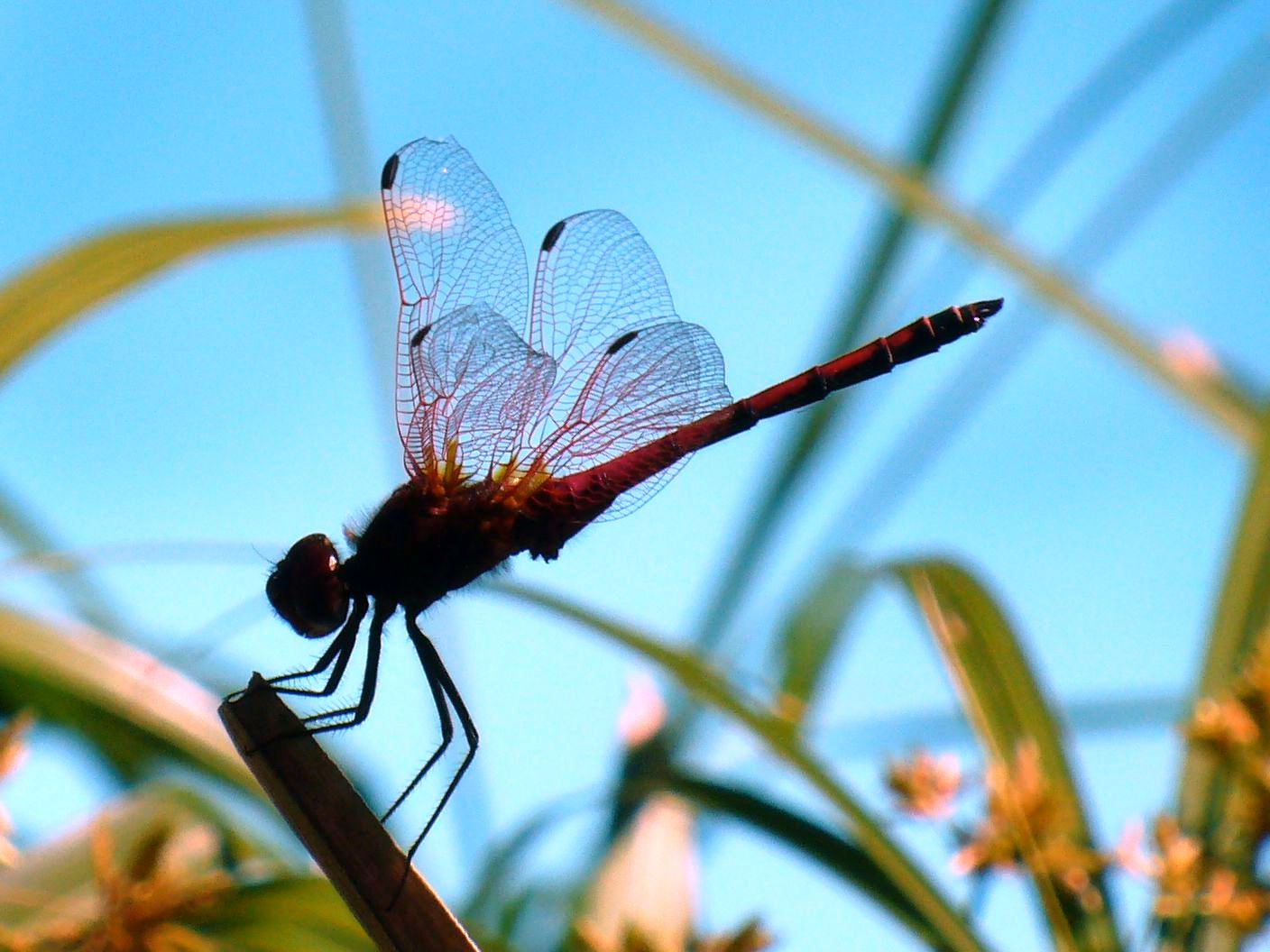 Red veined dropwing Cape Town